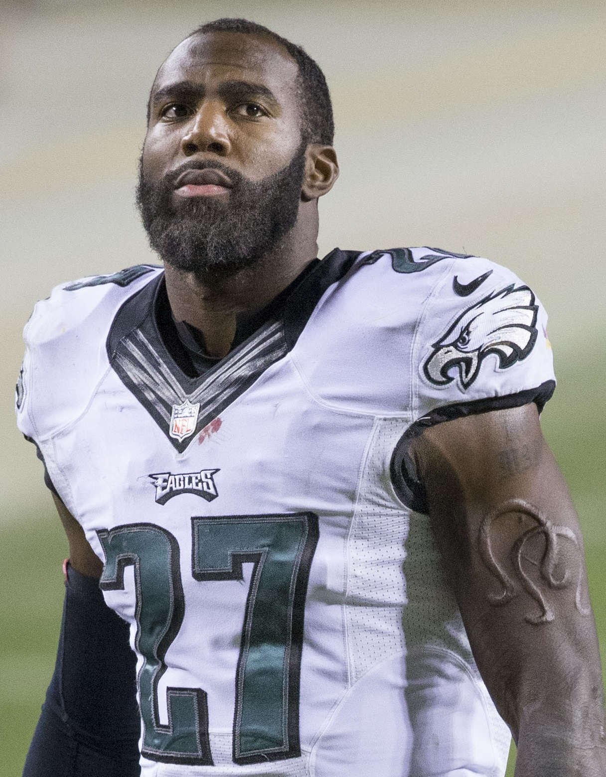 Eagles at Redskins 12/20/14